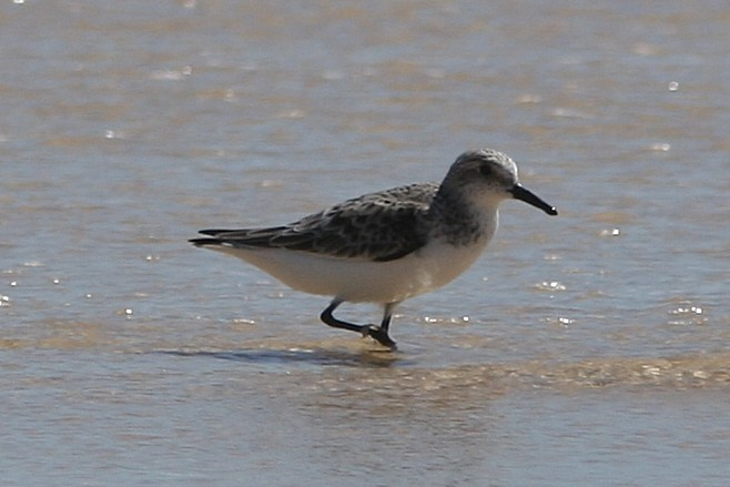 Sanderling, Calidris alba, non-breeding plumage.